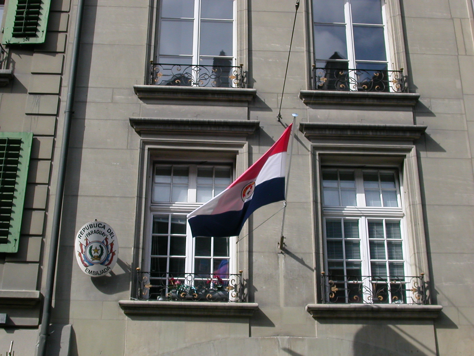 Paraguayan embassy in Switzerland, Berne